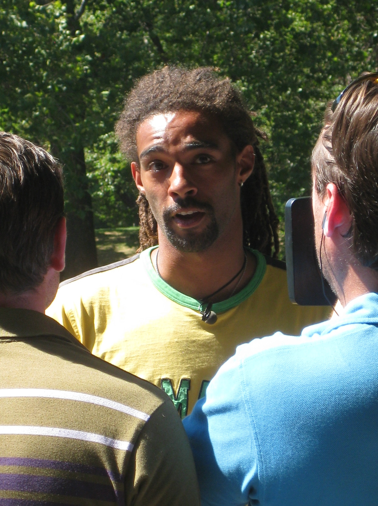 Dustin Brown is interviewed in Central Park